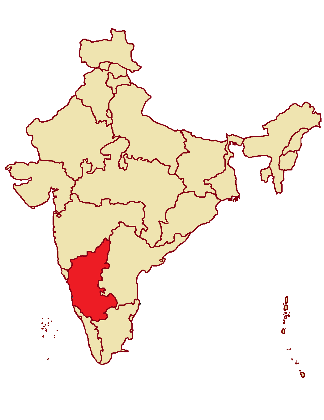 States and Union Territories of India, as of 1964-1965, i.e. between the creation of the state of Nagaland in 1963 and the Punjab Reorganization Act, 1966. Map does not include territories claimed by India but controlled by other countries. Borders not necessarily to scale. Based on File:States_of_India_(1964).png